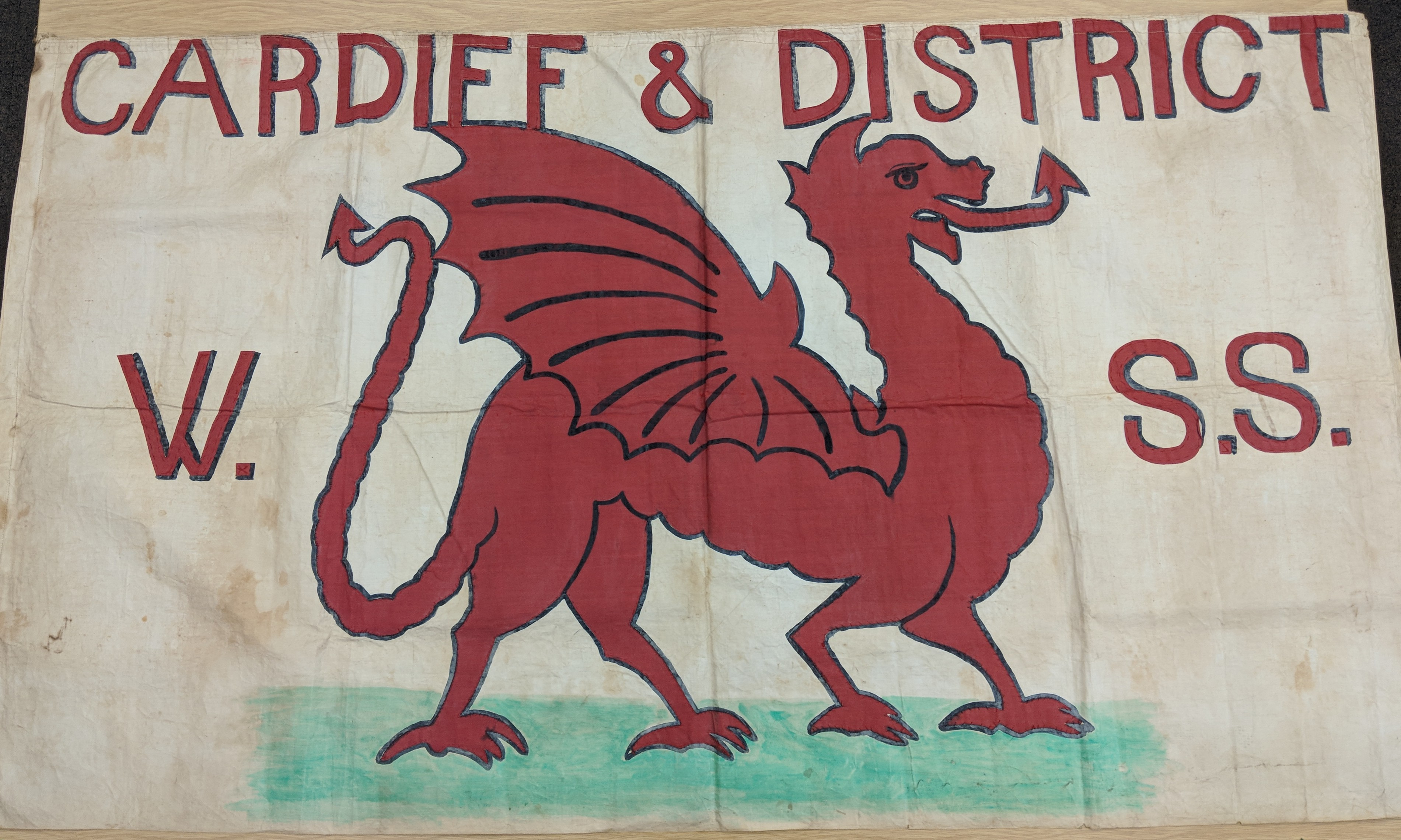 Banner of the Cardiff & District Womens Suffrage Society.